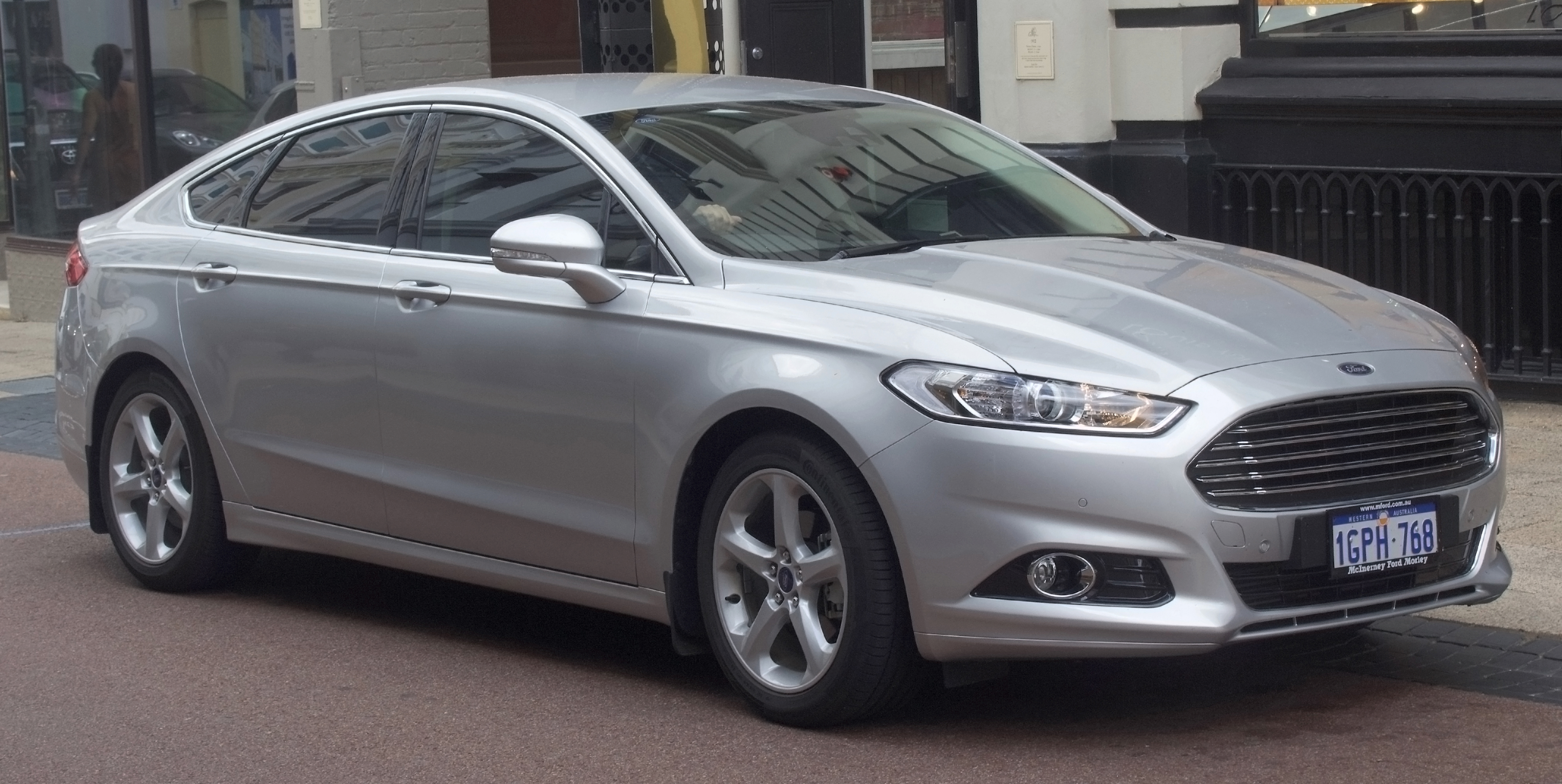 2018 Ford Mondeo (MD) Trend liftback. Photographed in Perth, Western Australia, Australia.